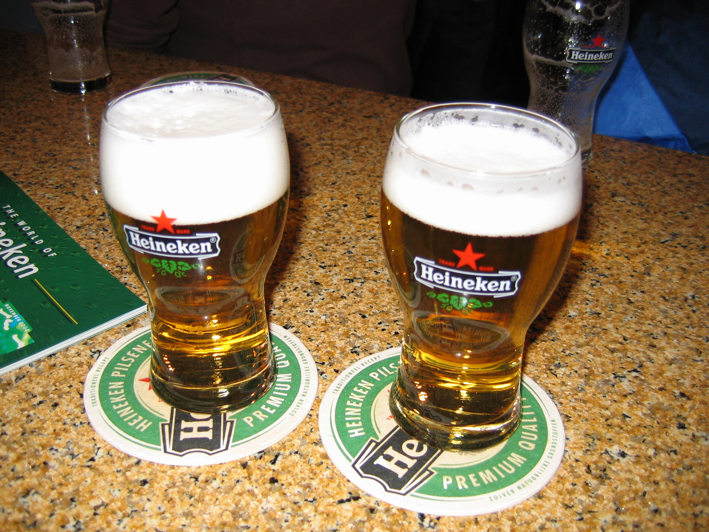 I took this picture in Amsterdam in March 2005.